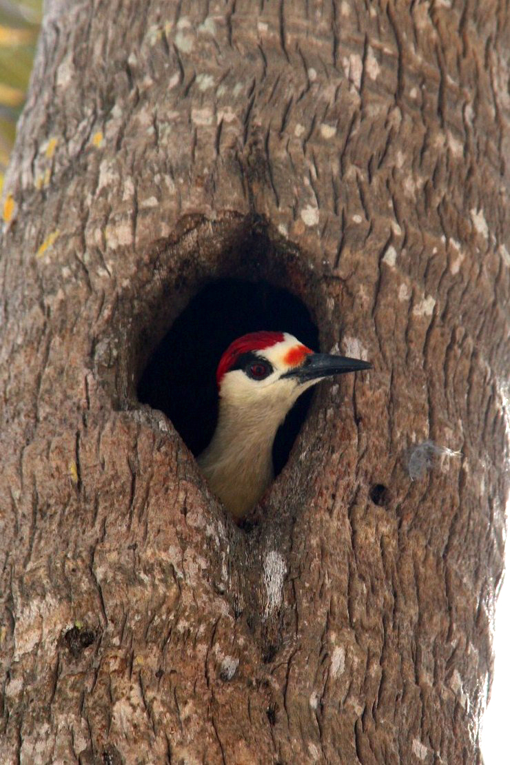 Melanerpes superciliaris is a species of bird in the Picidae family. It is found in the Bahamas, Cayman Islands and Cuba